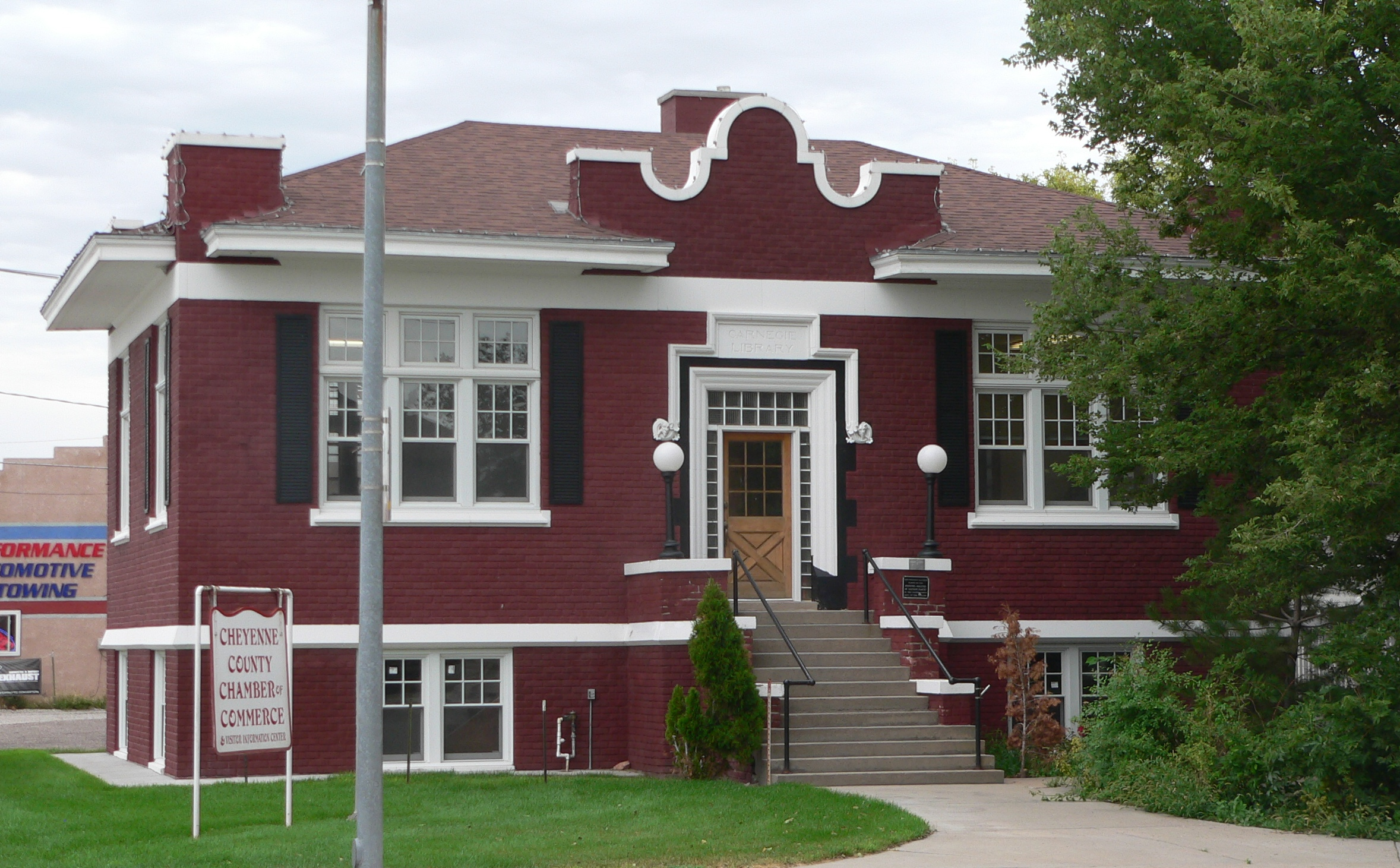 Sidney Carnegie Library building in Sidney, Nebraska; seen from the southwest. The Jacobethan building was constructed in 1914. It is listed in the National Register of Historic Places. It now houses the Cheyenne County Chamber of Commerce.